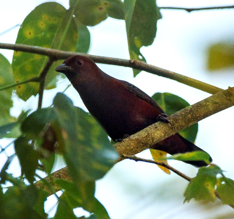 Original caption: "Chestnut-breasted Negrofinch from Canopy Walkway - Kakum NP - Ghana 14_S4E1256" (= Nigrita bicolor)